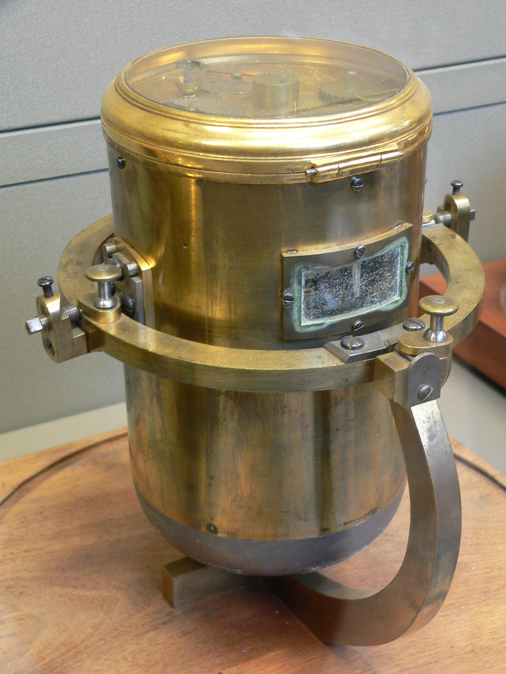 Photo taken in the Musée des Arts et Métiers